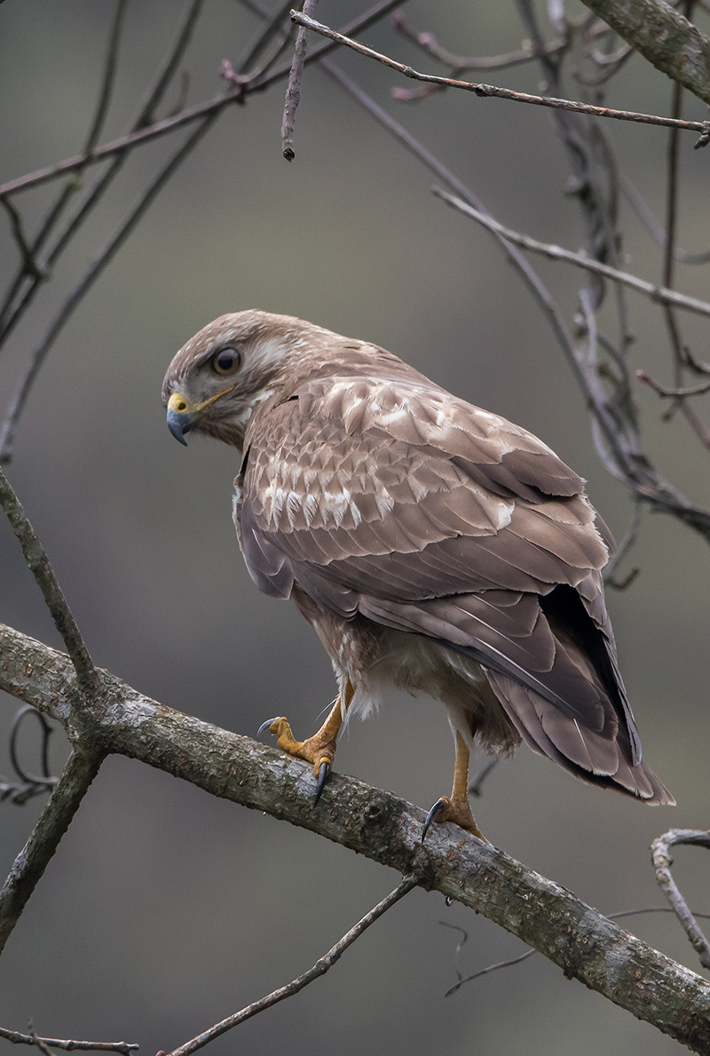 Taken at Pangolakha, Sikkim